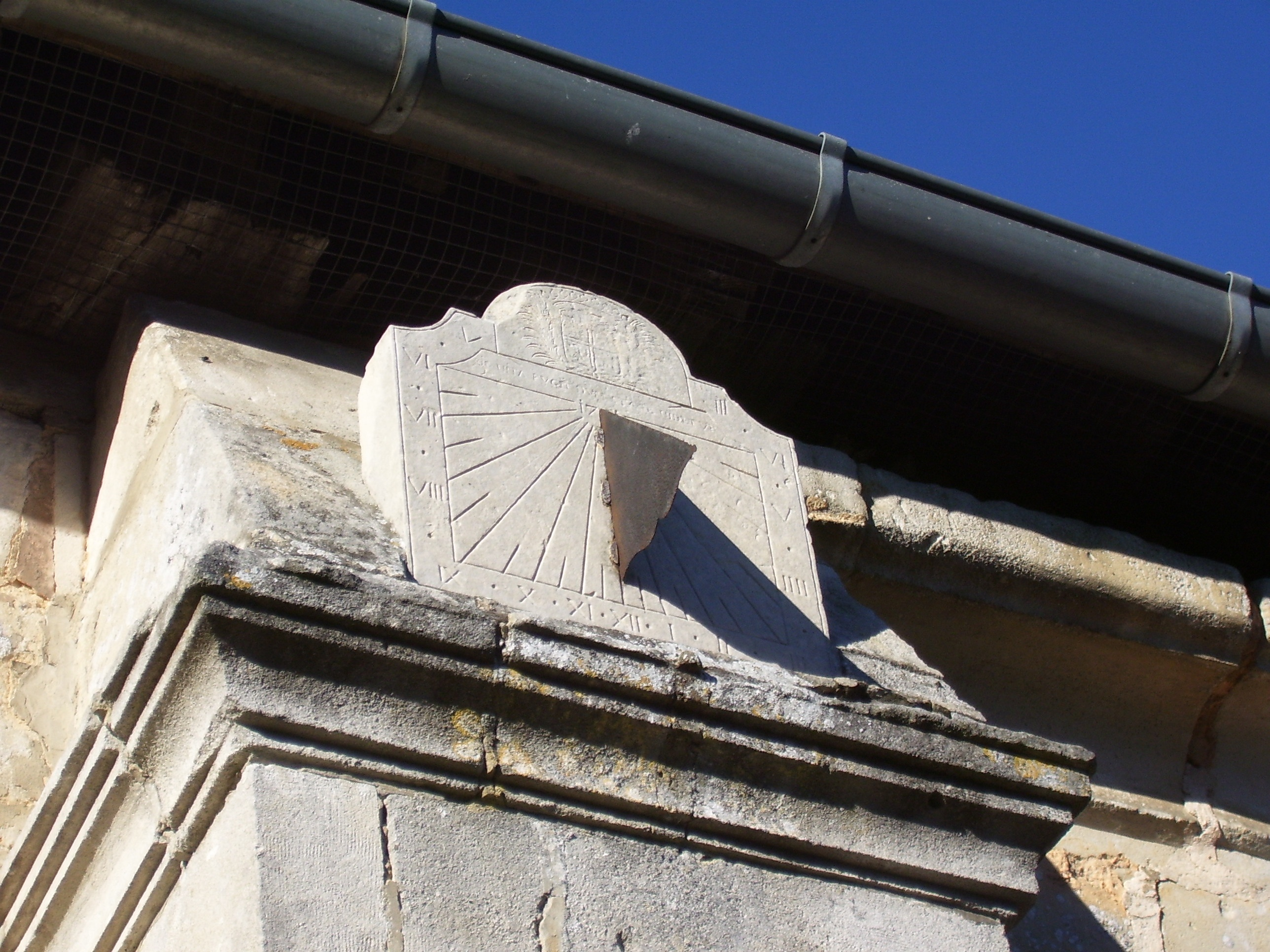 Sundial of 1721 on the façade of the church Notre-Dame of Boissy-Lamberville (Eure, Haute-Normandie) in France. It's bearing the coat of arms of the family Heusté de Lamberville and facing true south.